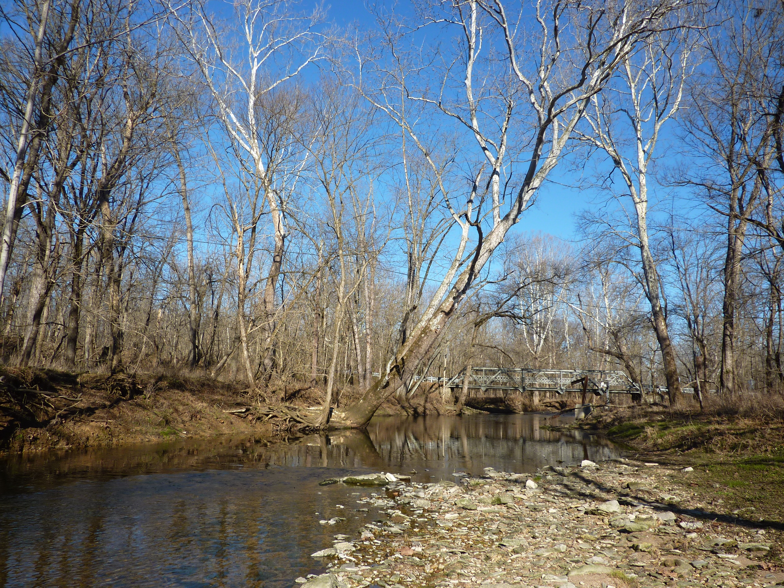 Cleer Creek south of Dillman Rd, Monroe County, Indiana. The road crosses the creek over a metal girder bridge. There are some relics of, apparently, quarrying operations, along the creek in this area.